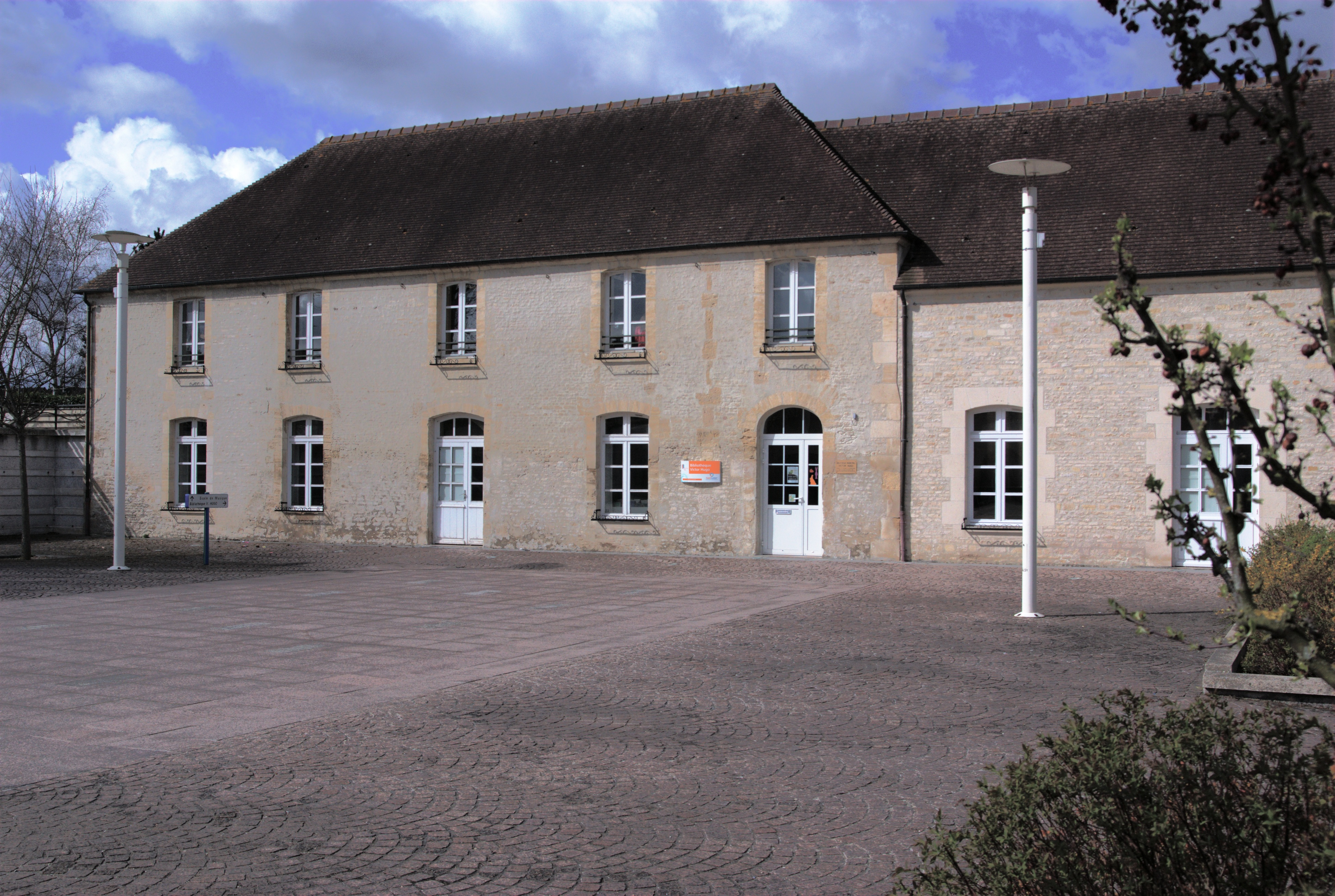 The public library of IFS